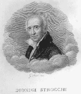 Portrait of Dionigi Strocchi, Italian Writer